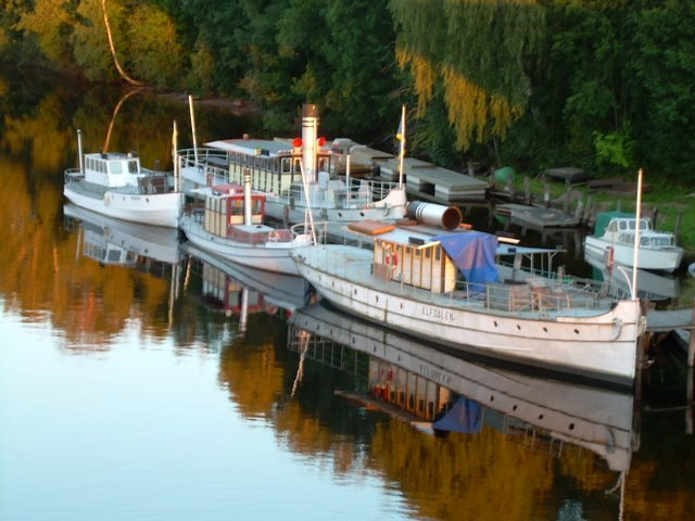 Necken, Gerdt, Elfdalen in Leksand. In the background: Göran This is an image of the protected Swedish ship Gerdt, with call sign SFC 5110 .